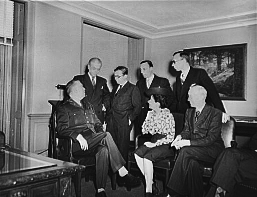 French journalists visit General George C. Marshall at his office in the Pentagon building. Left to right: (seated), General Marshall, Mme Etiennette Benichon, Louis Lombard, (standing) Francois Prieur, Jean-Paul Sartre, Stephane Pizella, and Pierre Denoyer